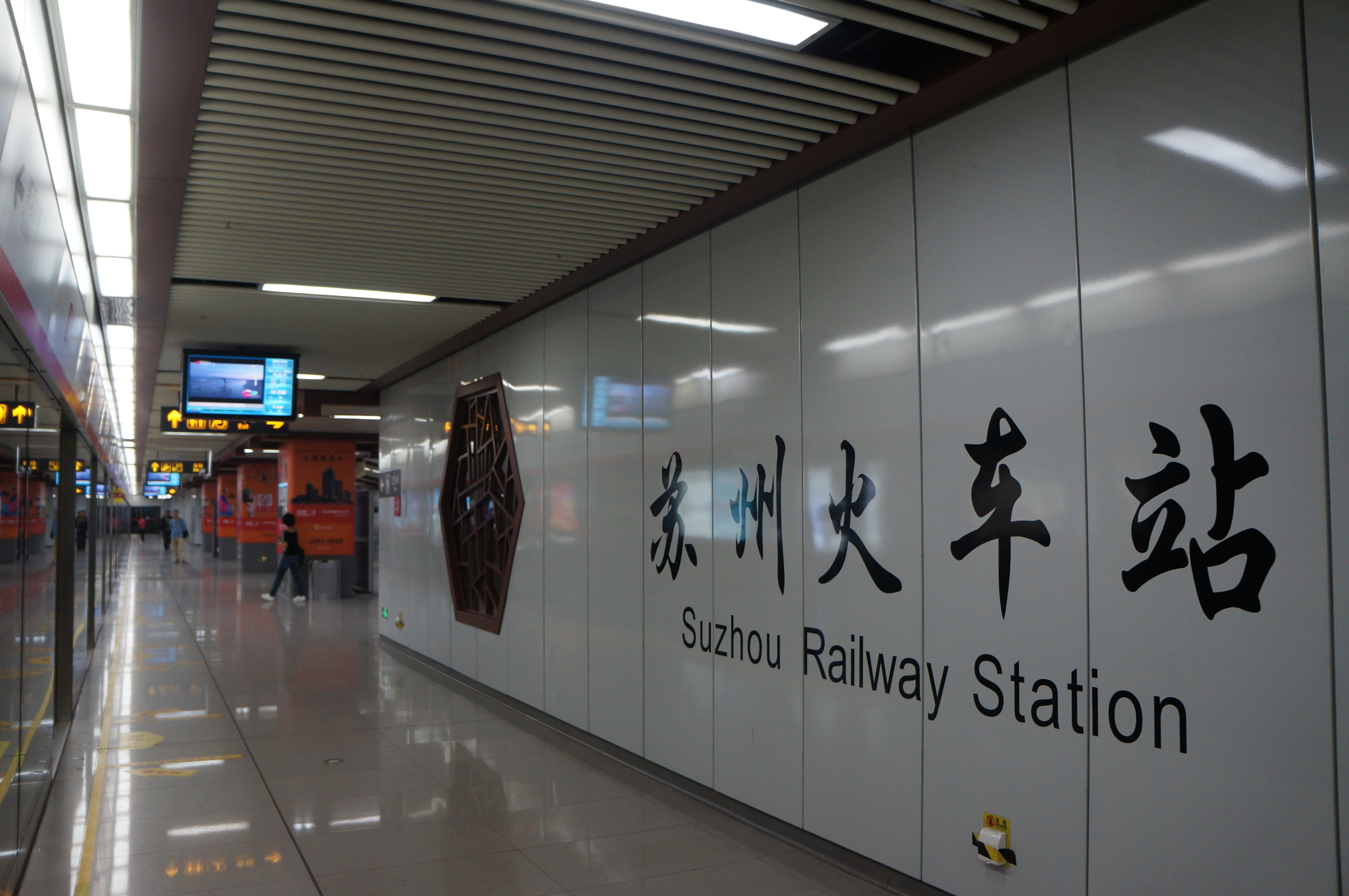 201610 Nameboard of SRT Suzhou Railway Station